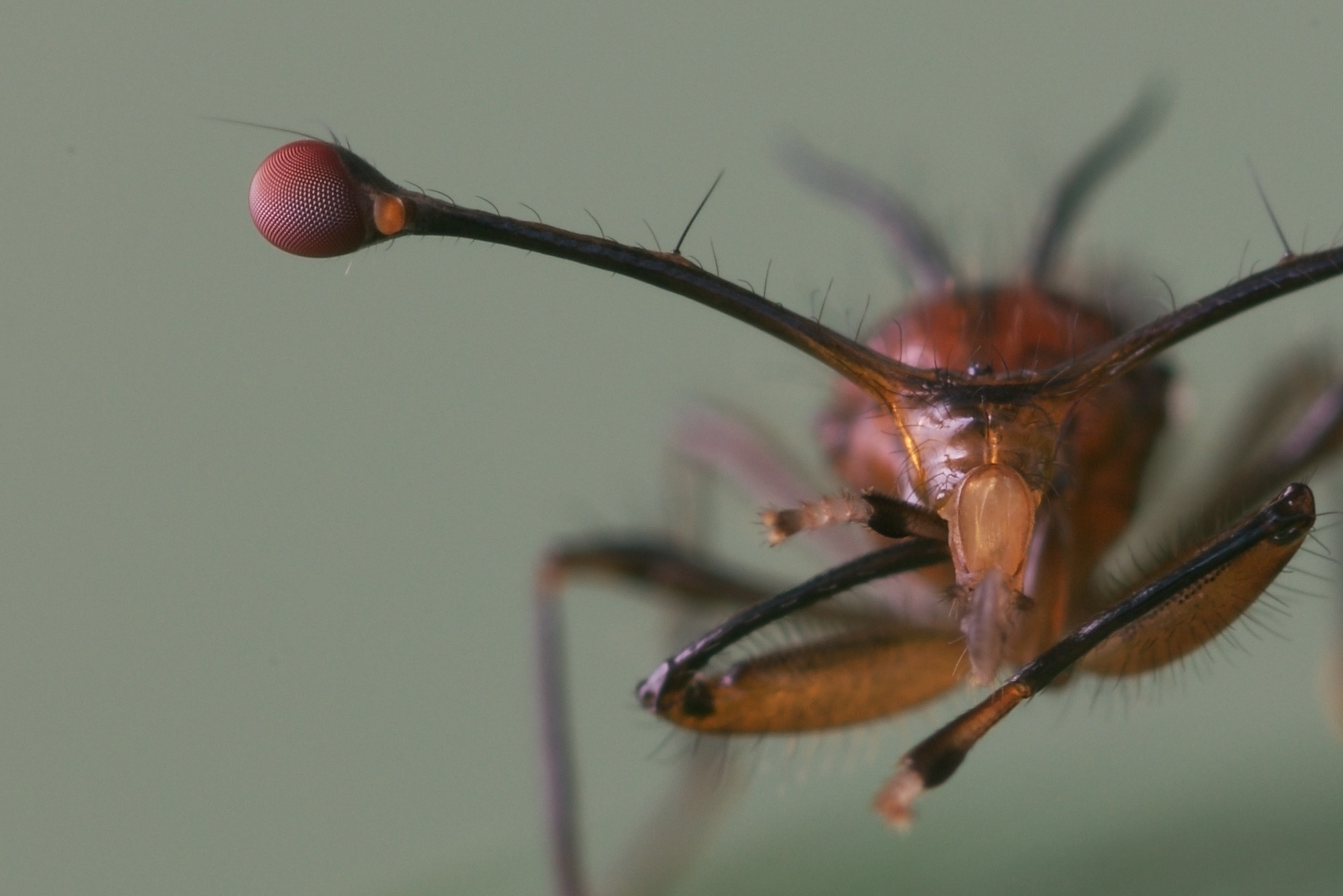 Close-up photo of a male stalk-eyed fly of the species Teleopsis dalmanni Taken with a Nikon D80, Sigma f2.8 EX DG 105mm macro lens and Kenko extension tubes, plus onboard flash and remotely fired SB-600